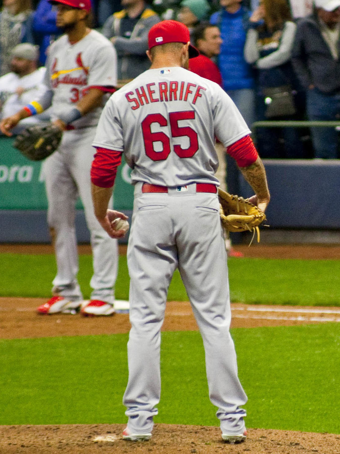 Ryan Sherriff of the St. Louis Cardinals stands on the mound at Miller Park in Milwaukee during a 2018 game